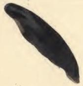 Stainton’s Natural History of the Tineina (1855–1873): Coleophora ditella larval case